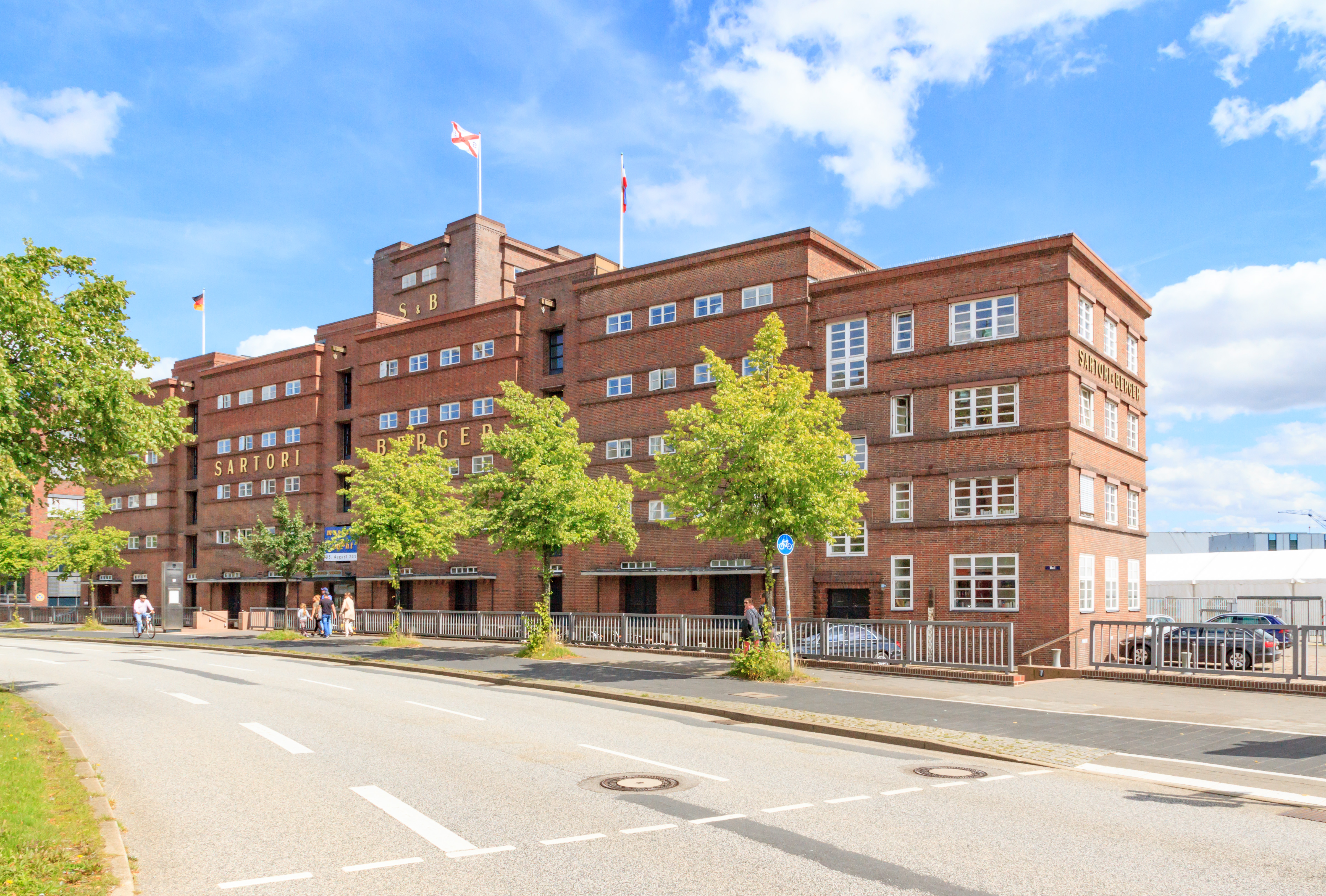 The former kontor building of the Sartori & Berger Company in Kiel. Since 2003 it is used by the State Library of Schleswig-Holstein.